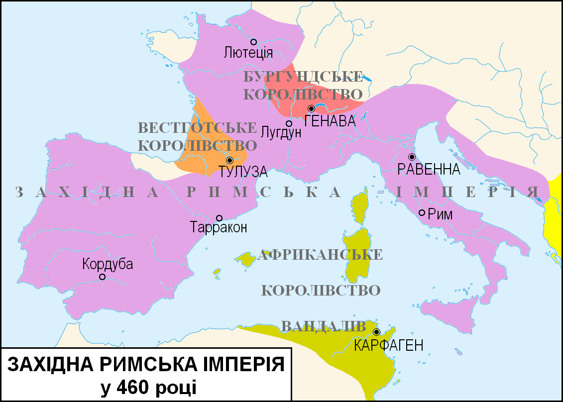 Map of the West Roman Empire at 460 AD (ukrainian)